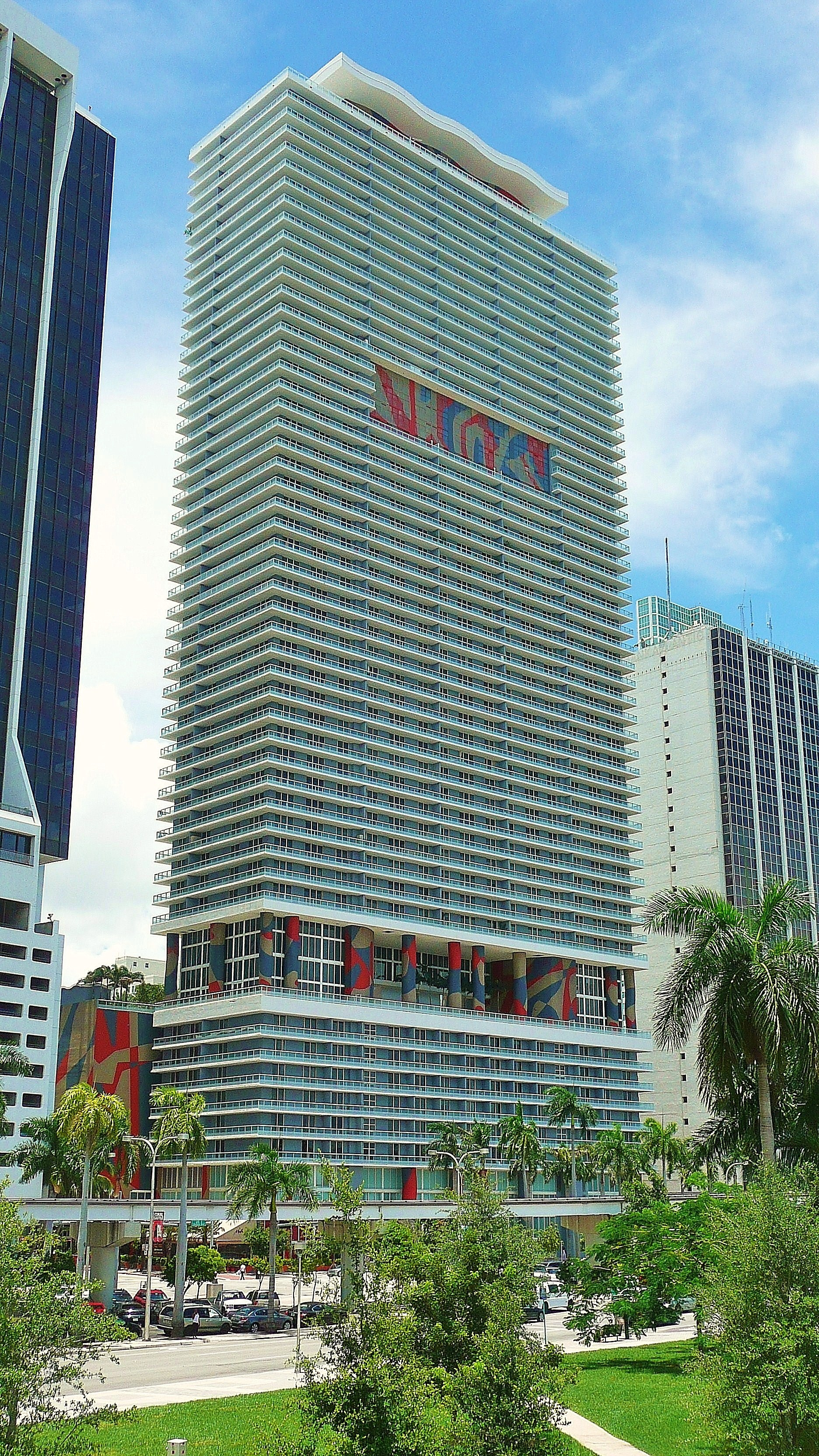 Digital photo taken by Marc Averette. 50 Biscayne in Downtown Miami, Florida, United States.